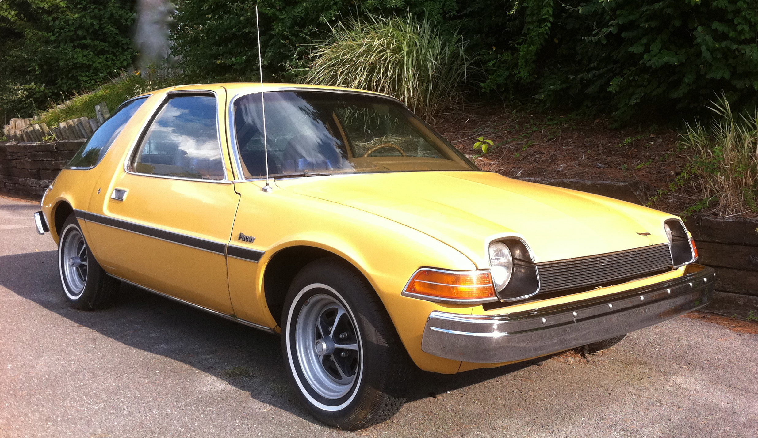 1975 AMC Pacer, base model, finished in "Mellow Yellow".